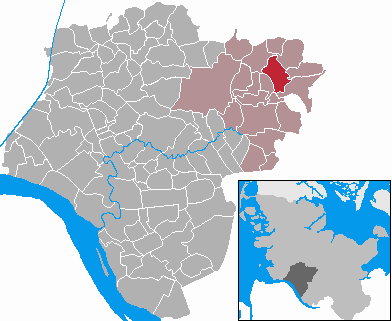 This map shows the area of the municipality Fitzbek in the Kreis (district) Steinburg, Schleswig-Holstein, Germany.